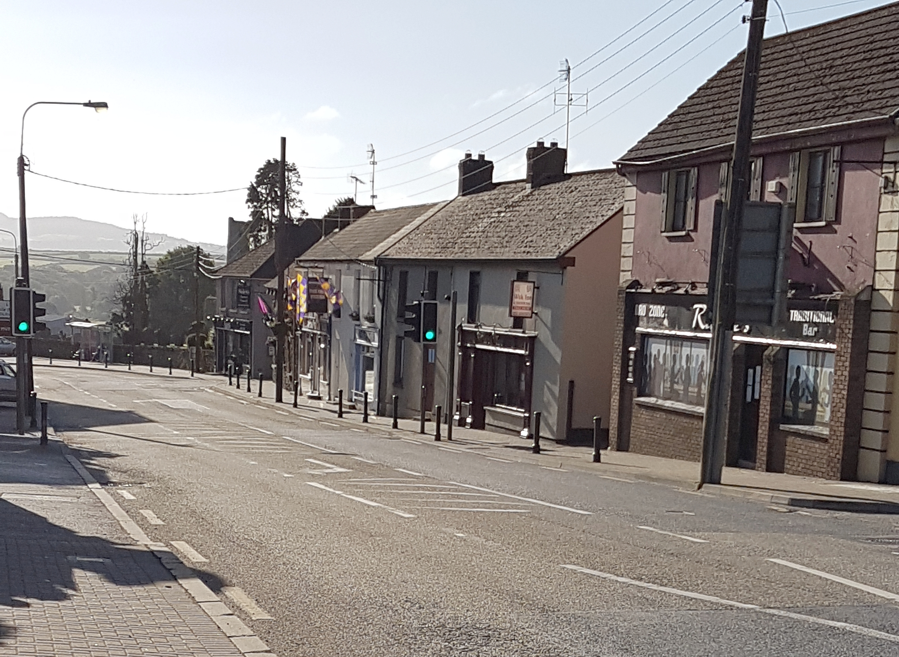 N11 in Ferns, County Wexford, Ireland.